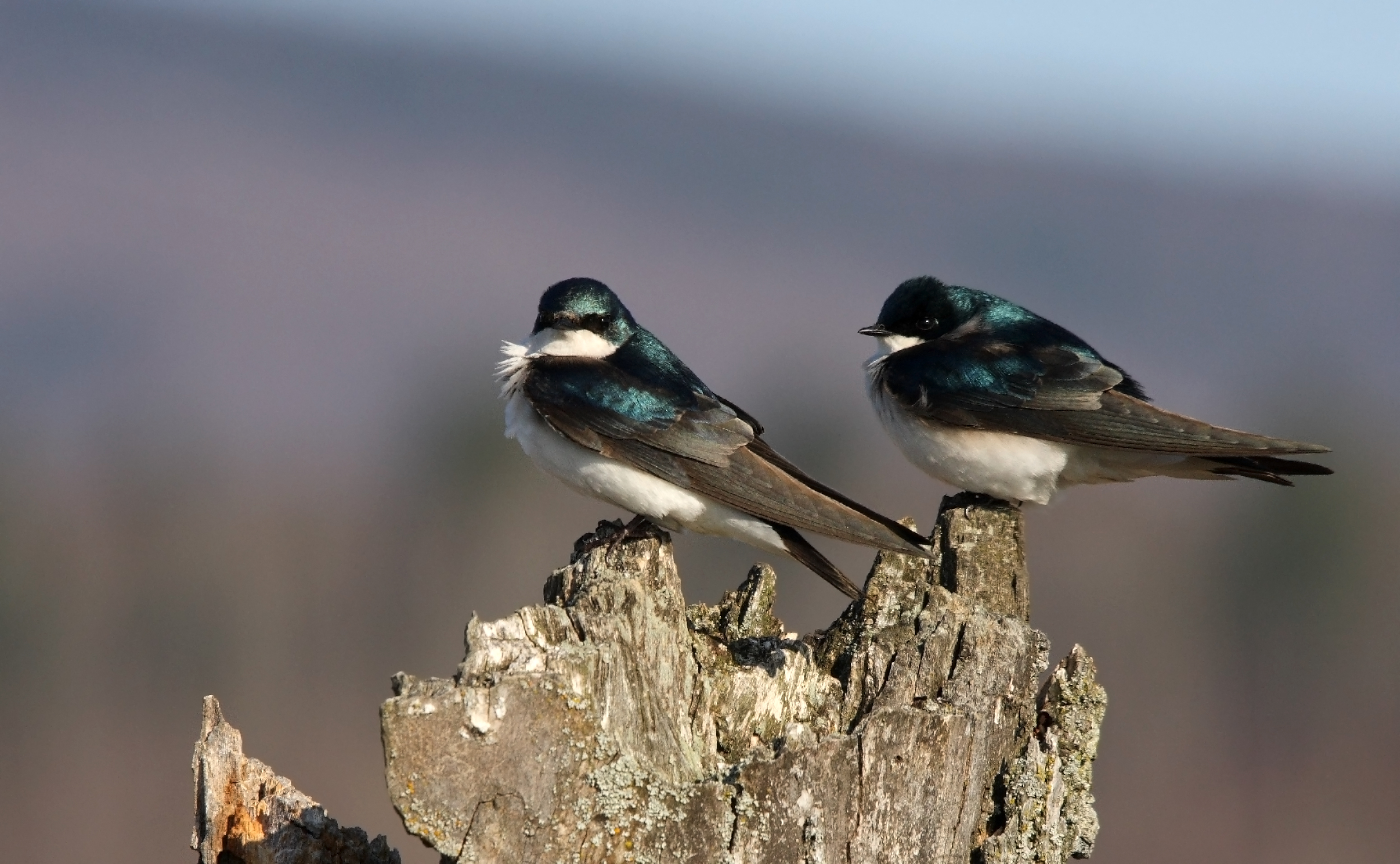 Tree Swallow (Tachycineta bicolor), Saint-Joachim (Cap-Tourmente), Quebec, Canada